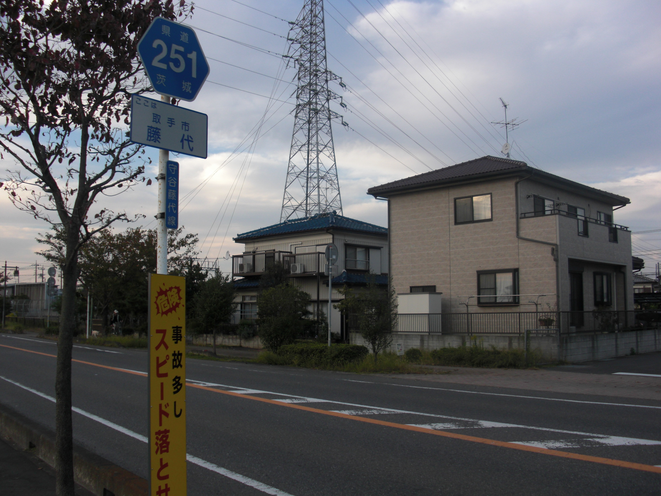 This is a landscape of Ibaraki prefectural road No. 251 Moriya Fujishiro line in Fujishiro, Toride, Ibaraki, Japan.